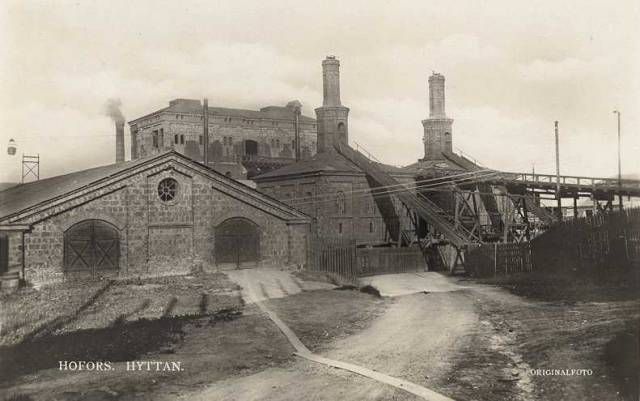 A photo of the blast furnace at Hofors bruk, sometime in the early 1900.